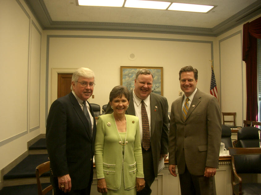 Jack Kemp, Sue Myrick, Phil English, and Mike Turner